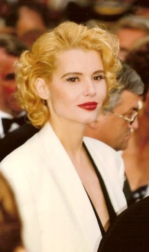 Geena Davis at the Cannes film festival